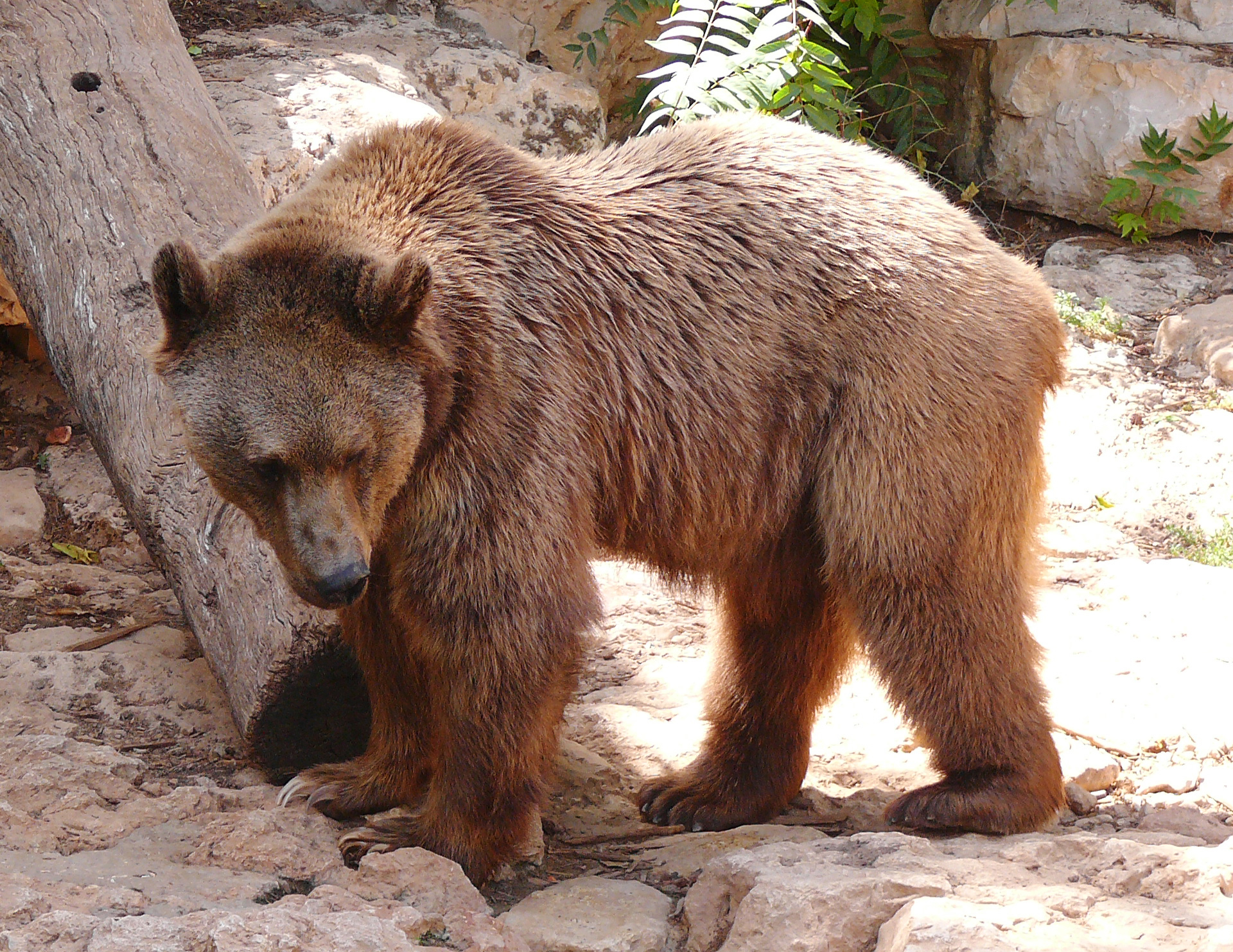 Syrian Brown Bear (Ursus arctos syriacus) in Jerusalem Biblical Zoo